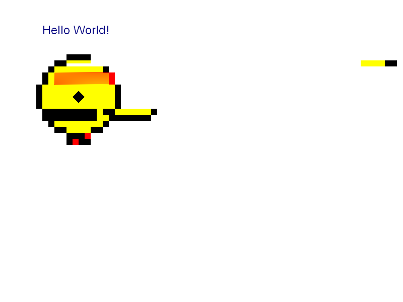 The Acid2 test as rendered by Firefox 2.0